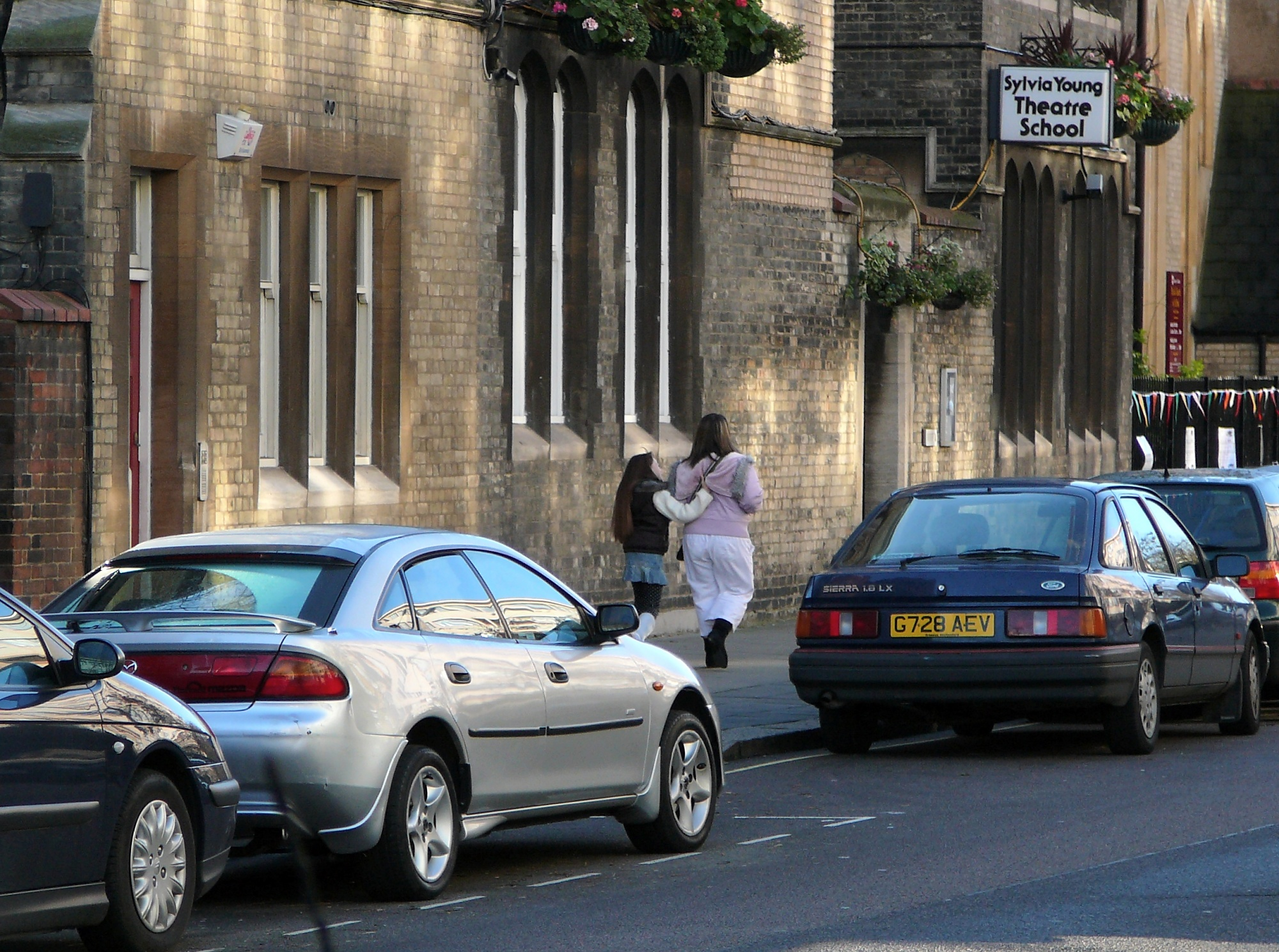 A view of the Sylvia Young Theatre School on Rossmore Road in Marylebone. The image was taken with a Panasonic Lumix DMC-TZ1.